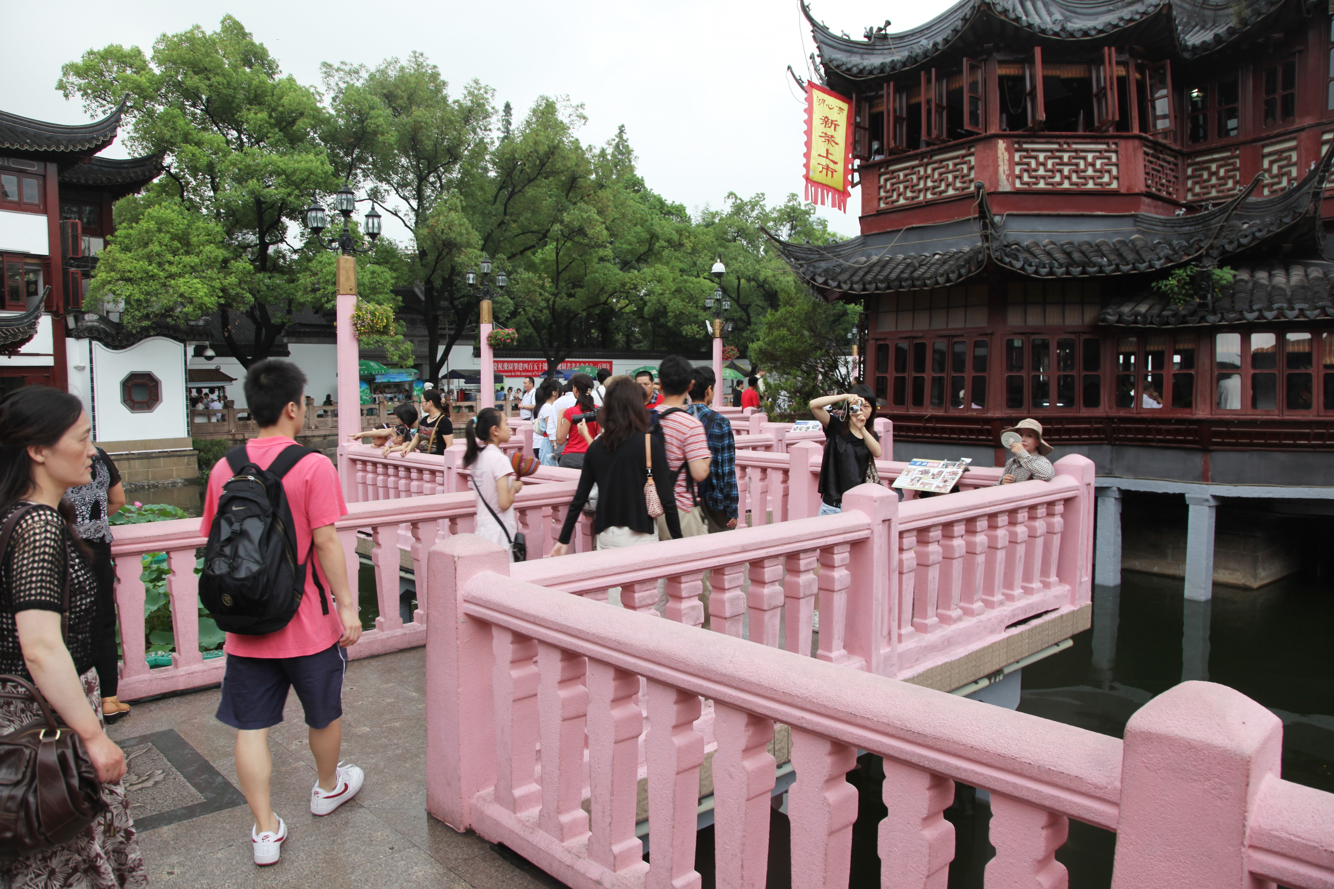 Yu gardens in Shanghai